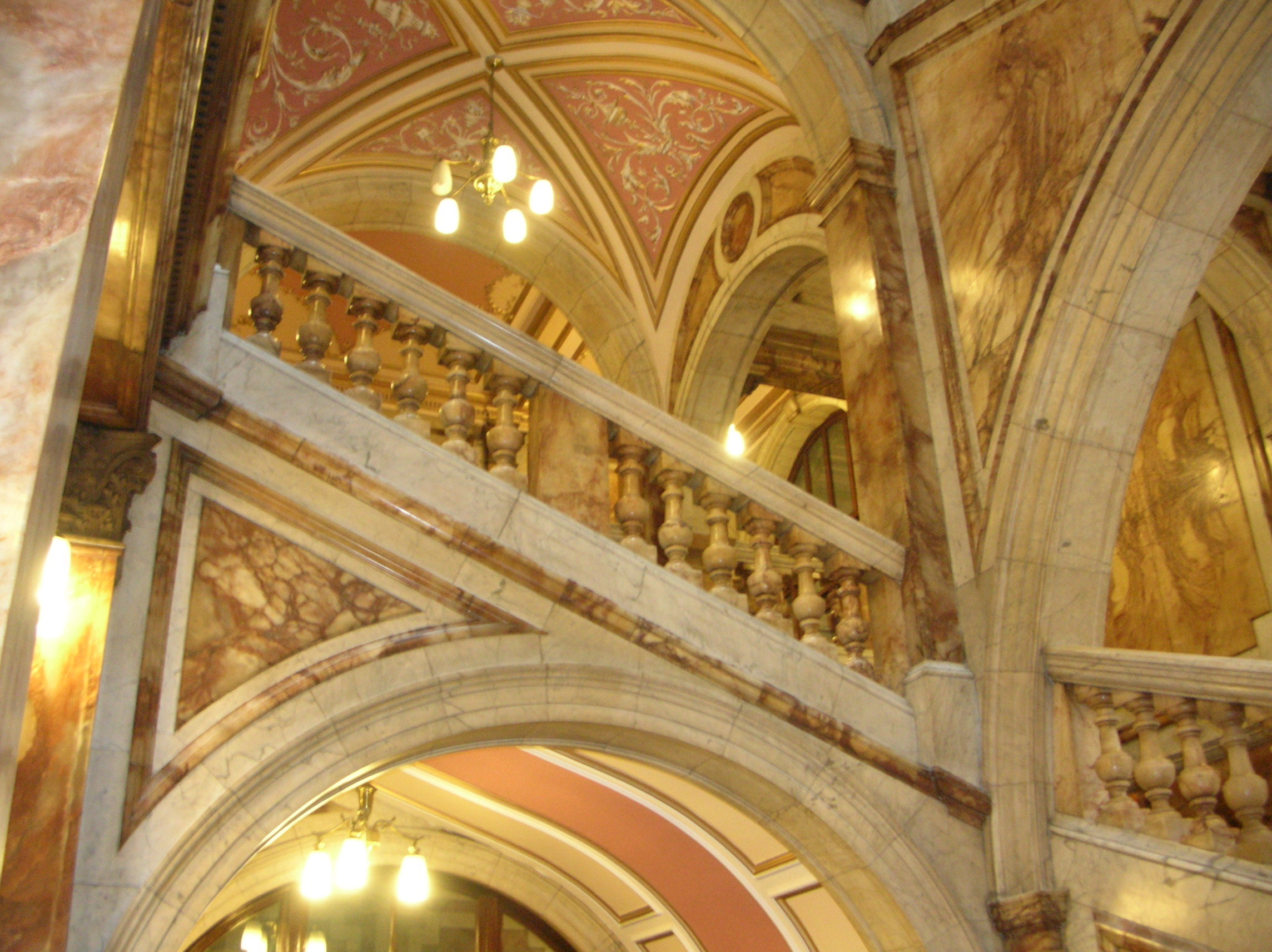 The Full Marble Staircase at City Chambers in Glasgow.